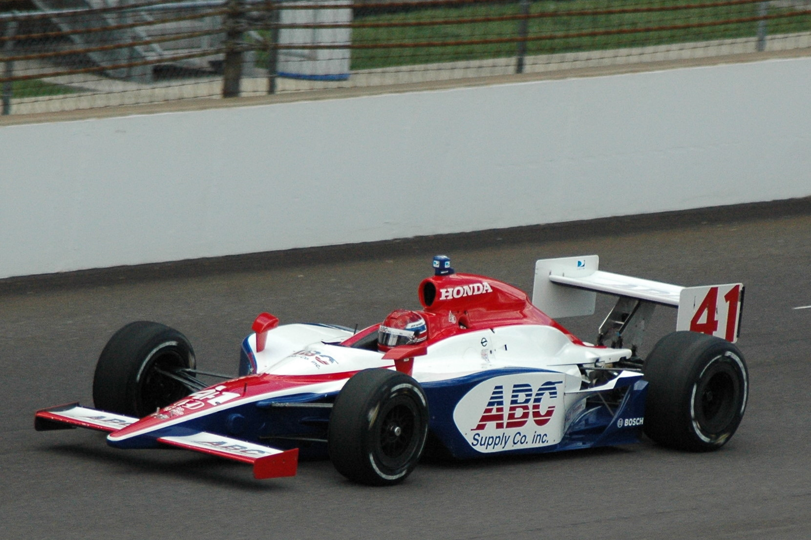 Jeff Simmons practicing for the 2008 Indianapolis 500